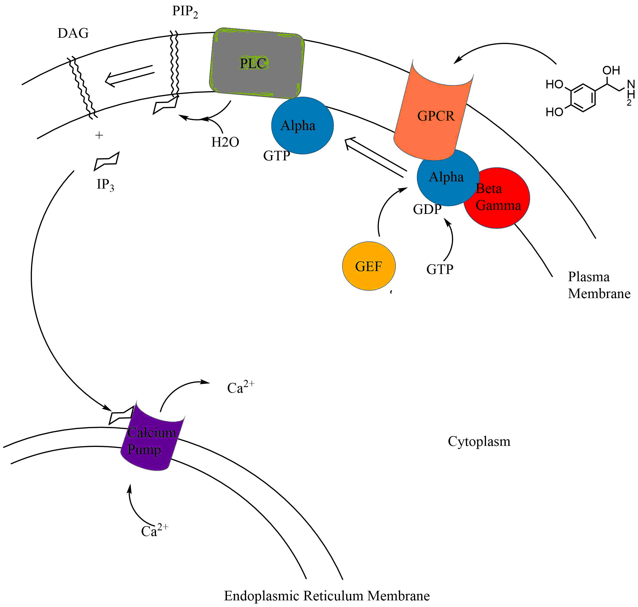 The signal transduction pathway of phosphoinositol.